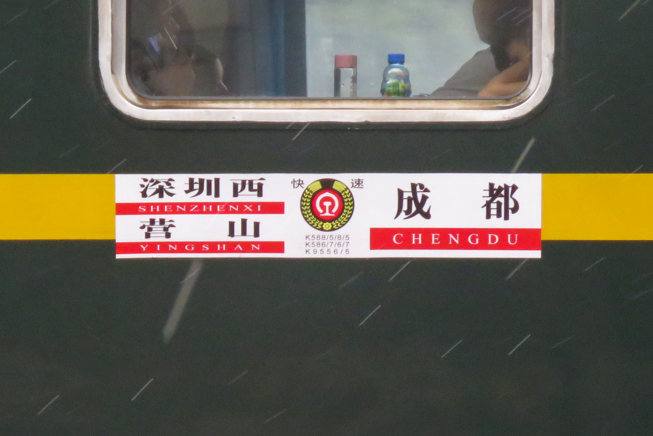 K585 is a cheaper train between Guangzhou and Shenzhen.